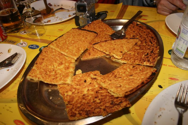 Farinata in Liguria, Italy.